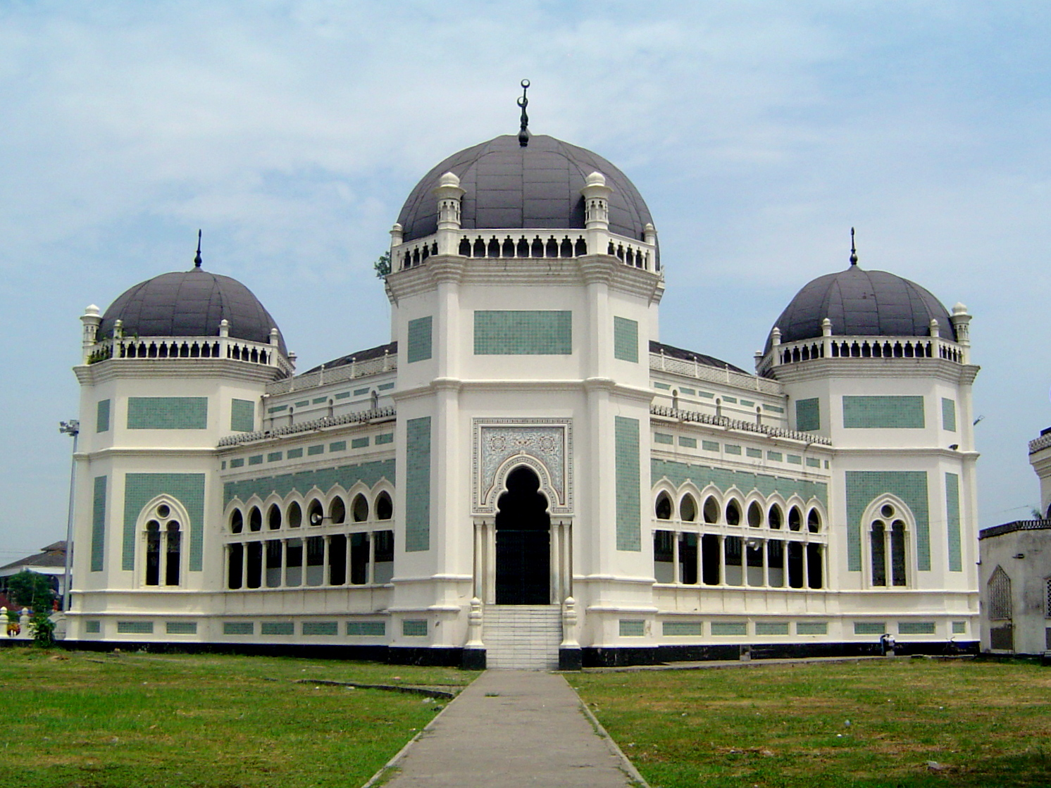 Great Mosque of Medan